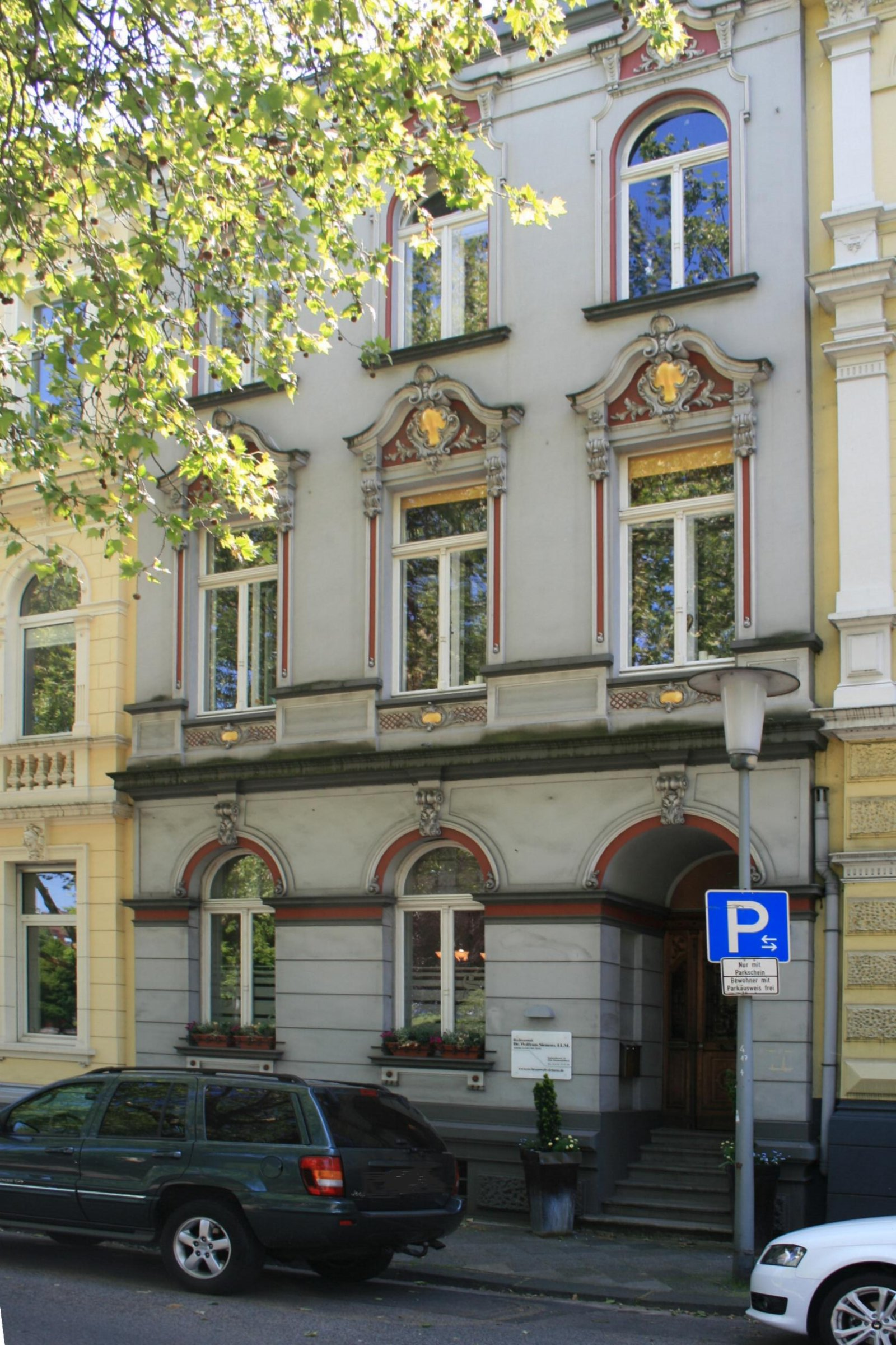 Cultural heritage monument No. H 097 in Mönchengladbach